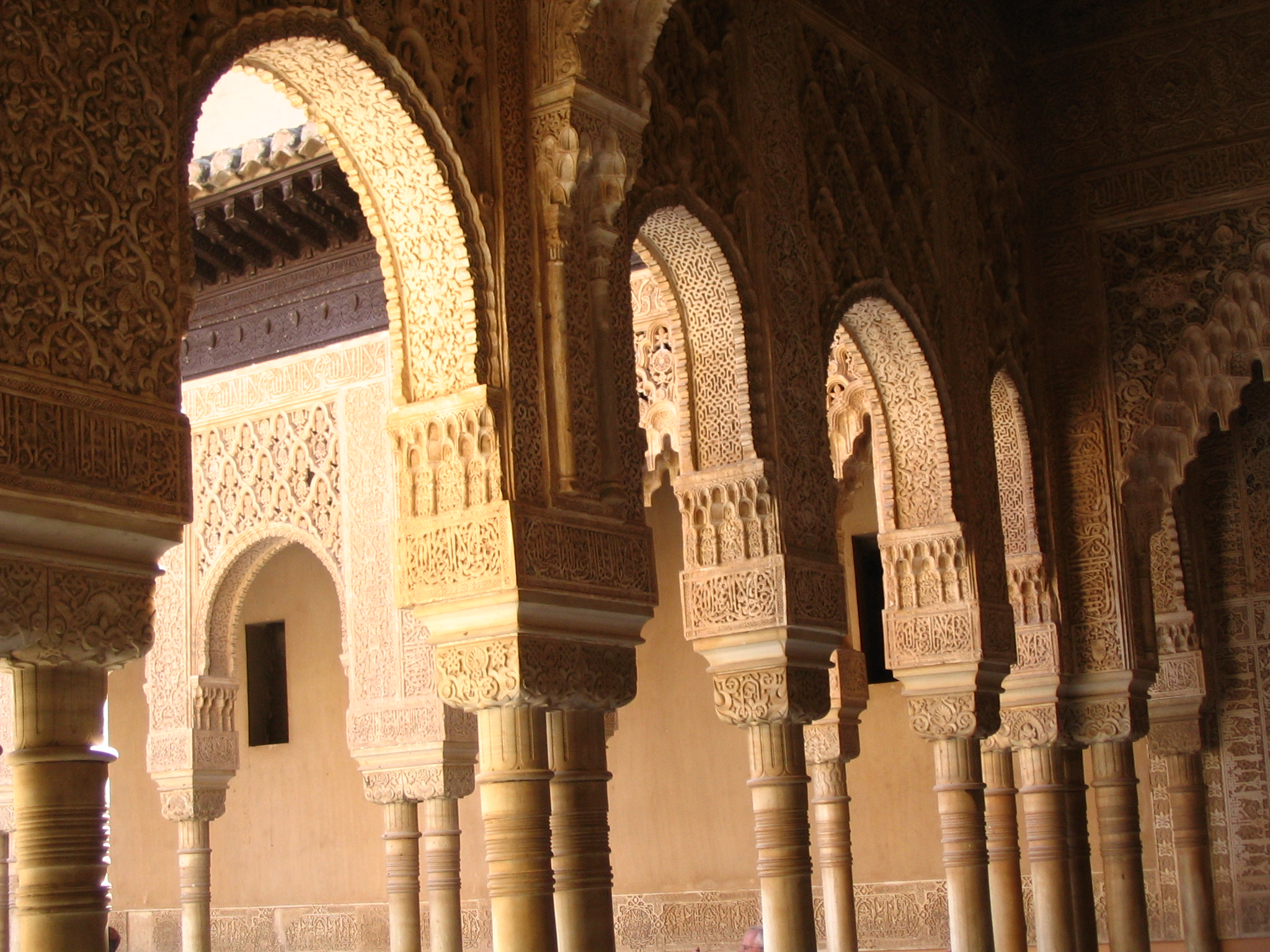 Picture taken by myself.